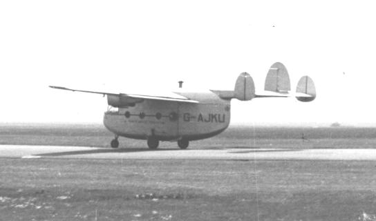 Miles M.57 Aerovan 4 G-AJKU of North-West Airlines (UK)